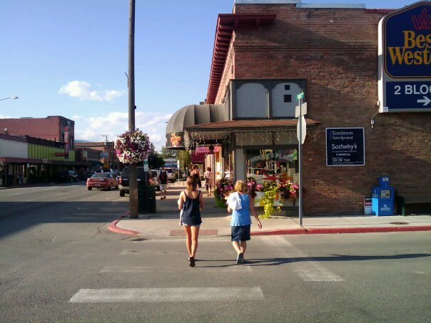 Downtown Sandpoint, Idaho looking north from 1rst and Bridge